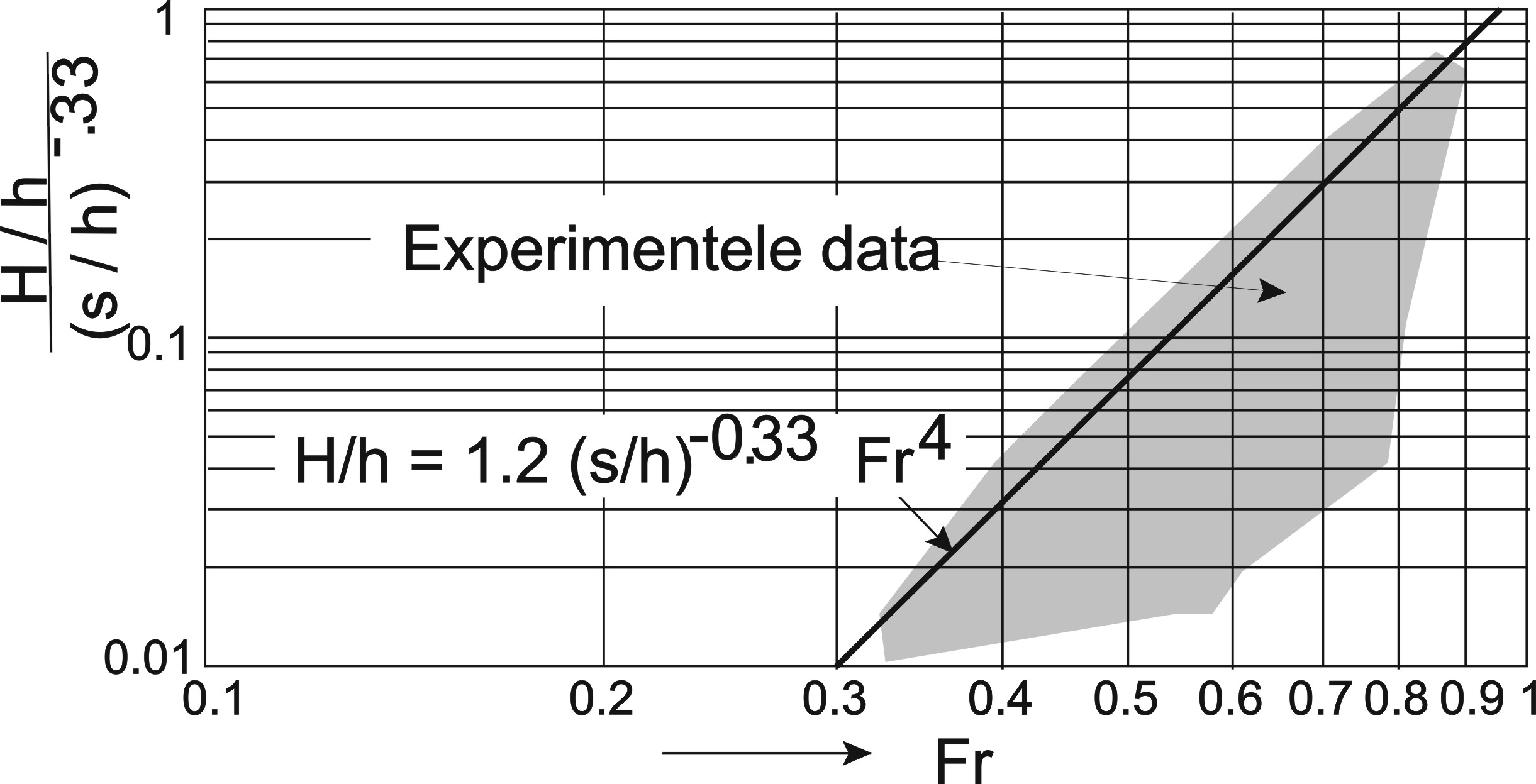 Experimental data of measured secondary wave height near the bank and curve fitting formula